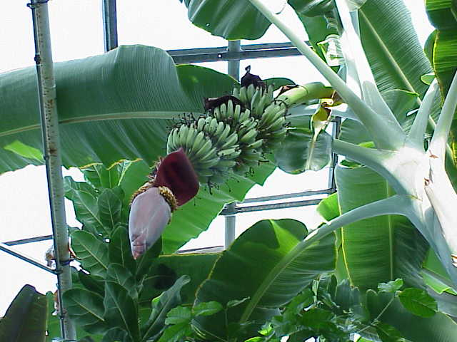 Species: Musa acuminata Family: Musaceae Image No. 2